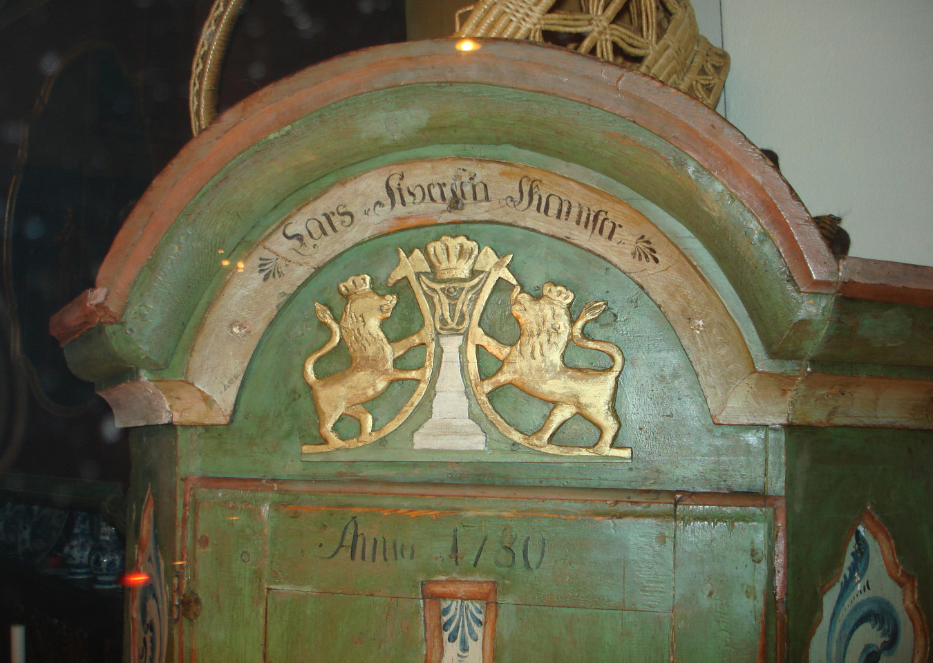 Folk art Norwegian lions on cupboard ca 1760, exhibited in an antique shop